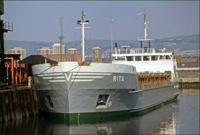 The coaster Rita in the Abercorn Basin, Belfast with a cargo of coal. The quay has since been closed to shipping and redeveloped.